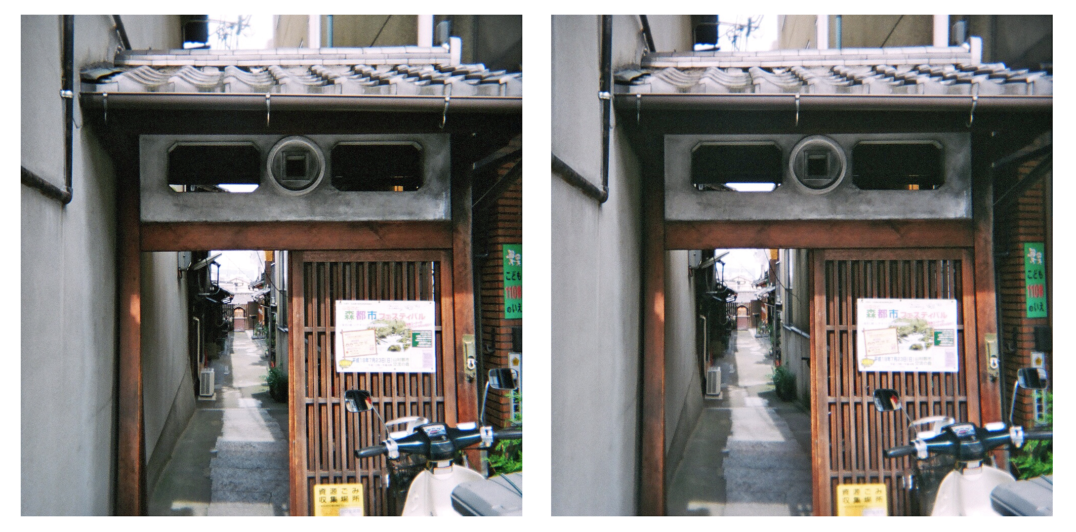 3D photo-cross view,kyoto goin long house(立体写真-交差法、祇園の長屋）